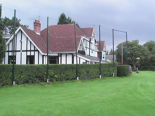 Clubhouse